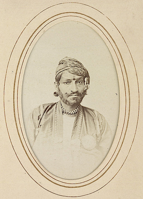 Photograph by Bourne and Shepherd of Ram Singh II (1834–1880), Maharajah of Jaipur, published in "Album of cartes de visite portraits of Indian rulers and notables"